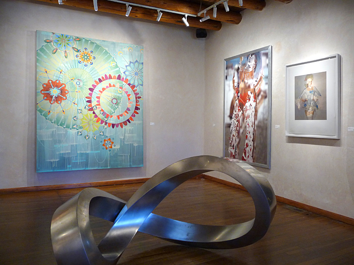 Interior view of Turner Carroll Gallery, showing works by Rex Ray, Deborah Oropallo, and others.